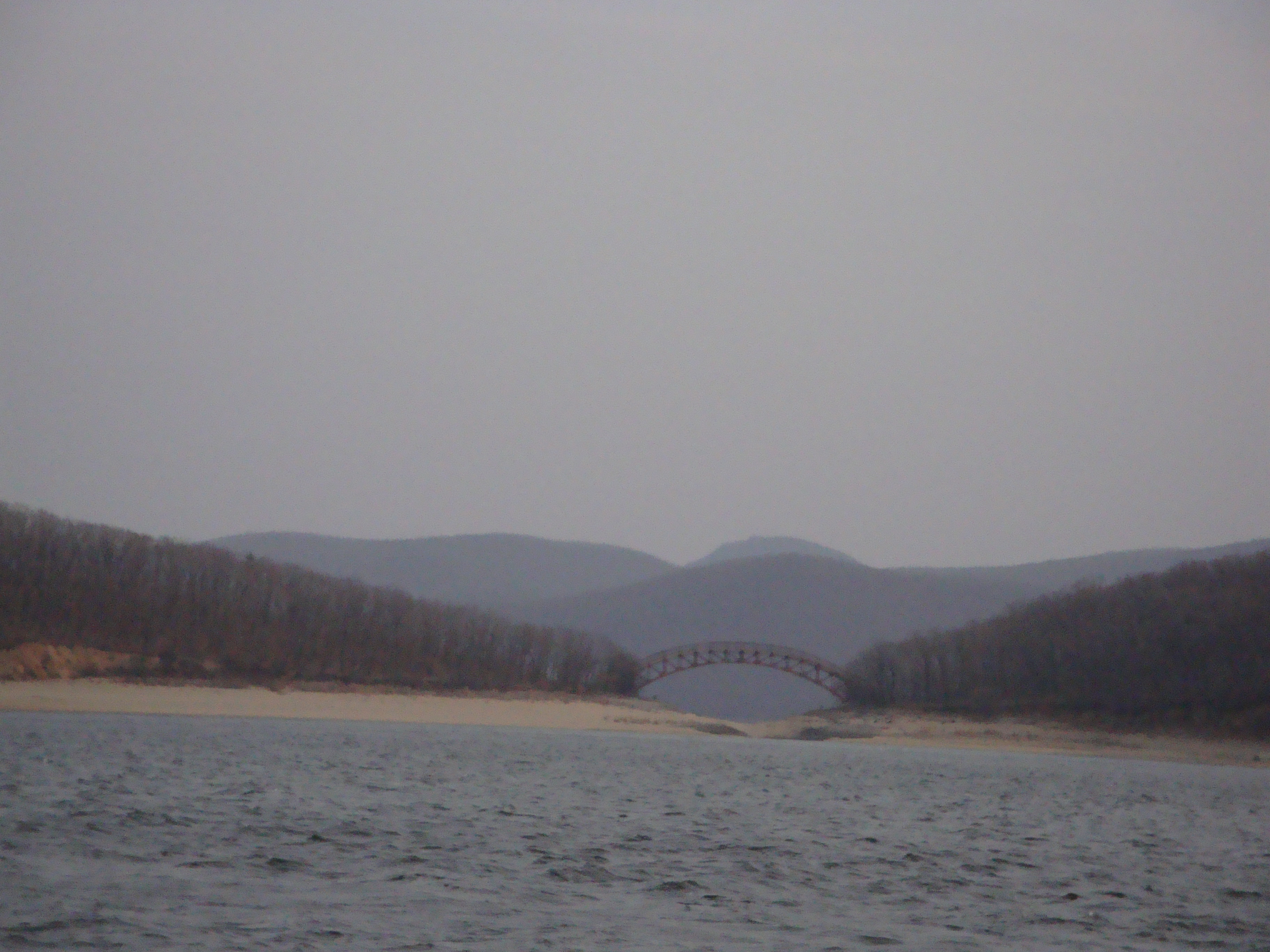 Maogong Mountain, Jingpo Lake